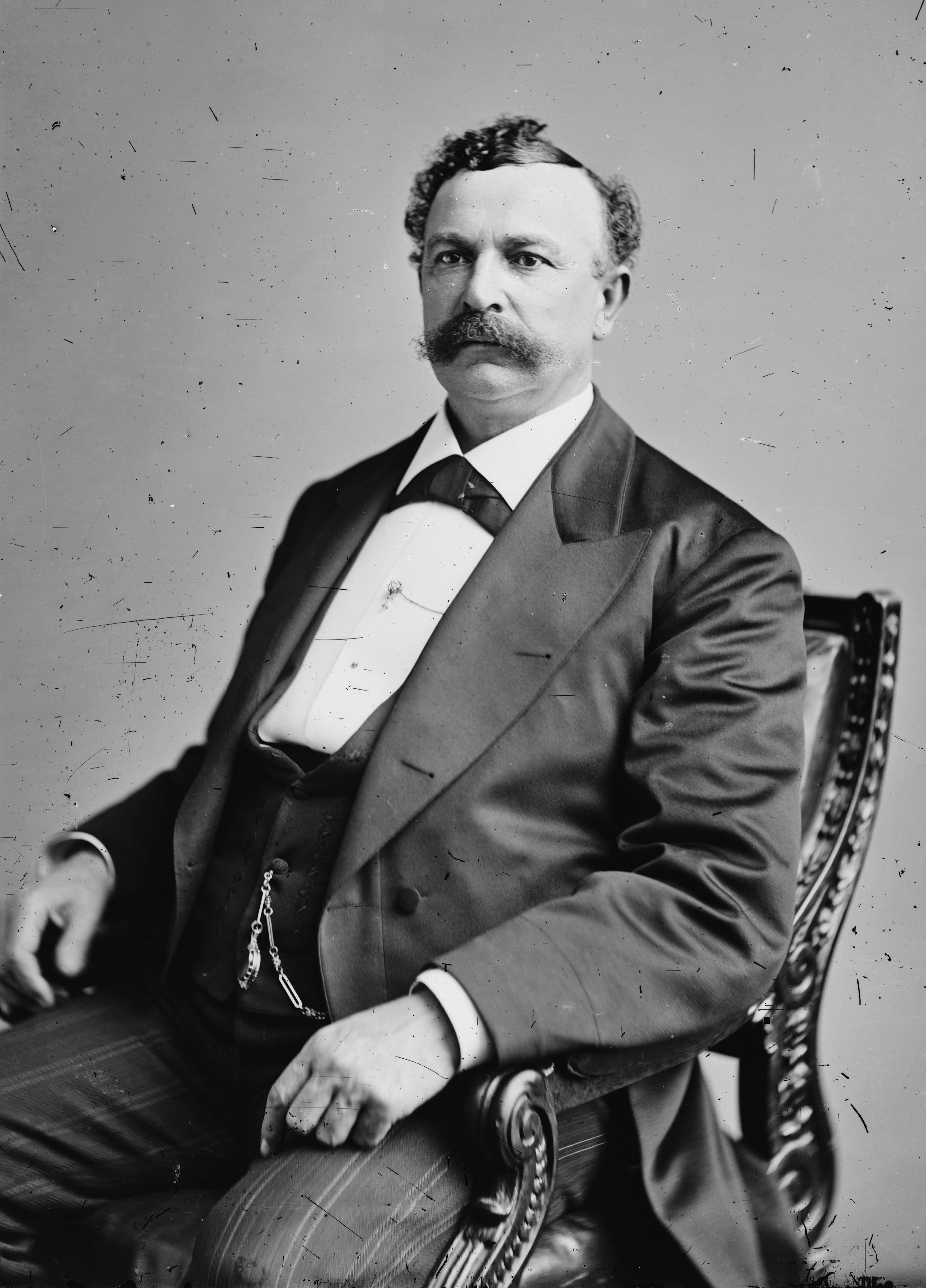 Alfred C. Harmer. Library of Congress description: "Alfred C. Harmer, M.C. Pa."